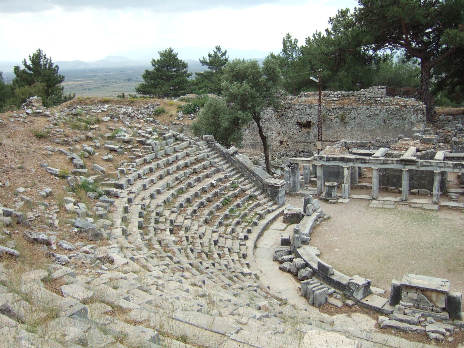 The Theatre in Priene